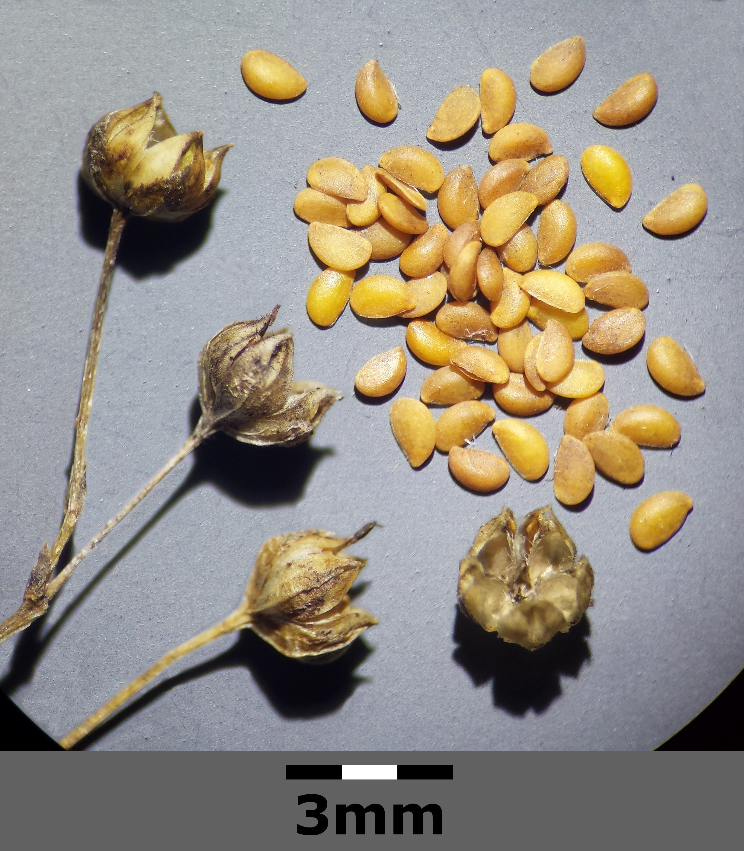 Capsules with seeds Taxon: Linum catharticum (sensu Fischer et al. EfÖLS 2008 ISBN 978-3-85474-187-9) Location: Stetter Berg, district Korneuburg, Lower Austria - ca. 250 m a.s.l. Habitat: semi-dry grassland